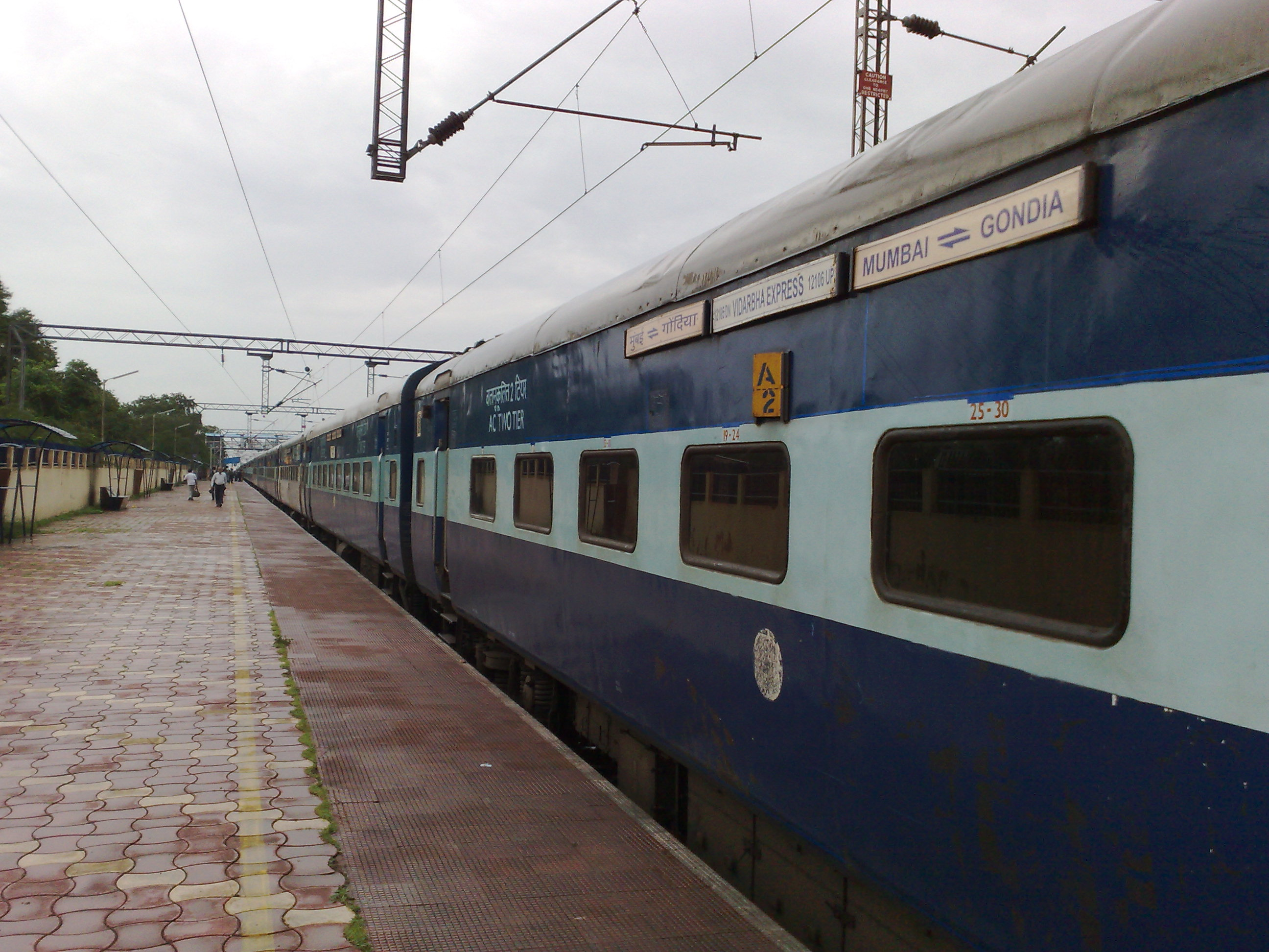 12105 Vidarbha Express at Chandur